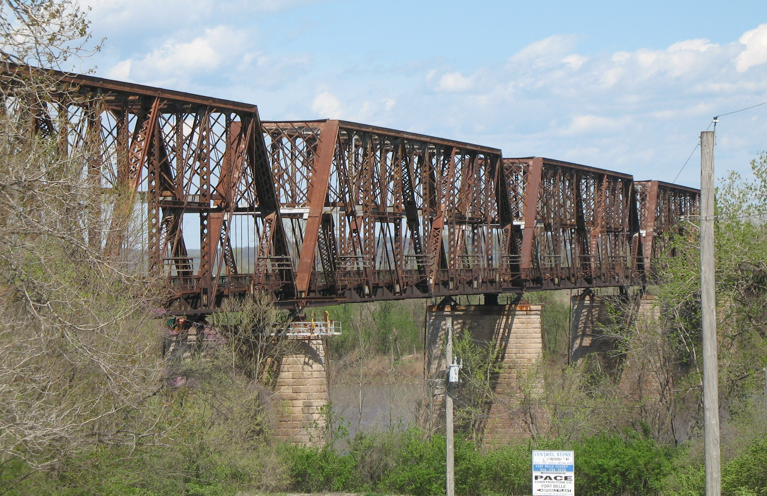 Bellefontaine Bridge